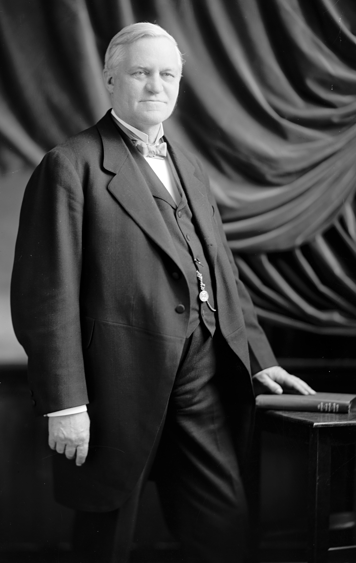 Frank Nye, US Representative from Minnesota